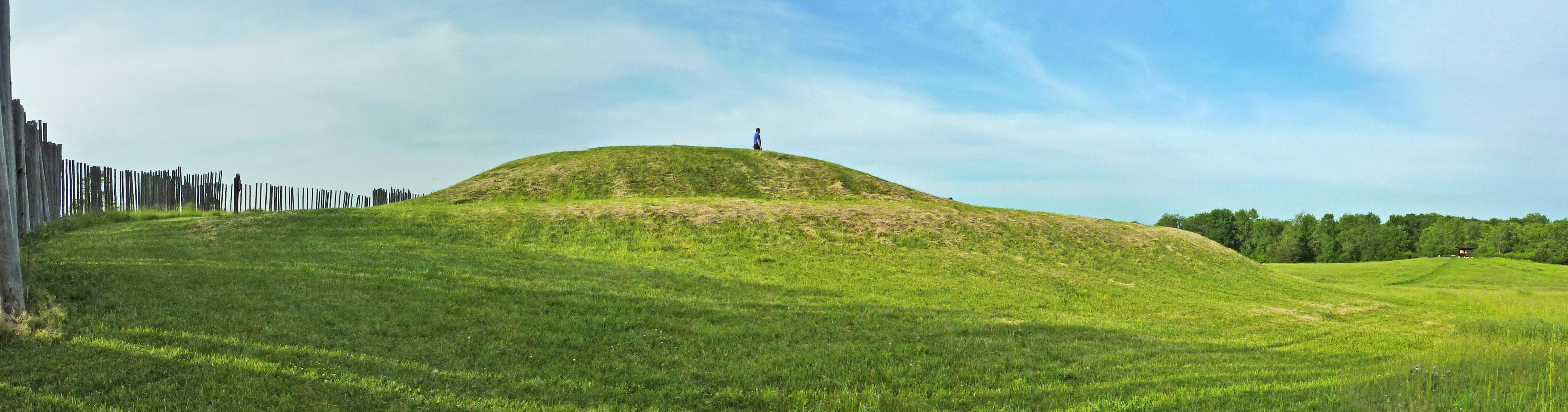 Jeff Ballard, a visitor from Madison, Wisconsin, atop the larger of two restored platform mounds at Aztalan State Park in Aztalan, Wisconsin. This site was declared a National Historic Landmark in 1964 and was added to the National Register of Historic Places in 1966.